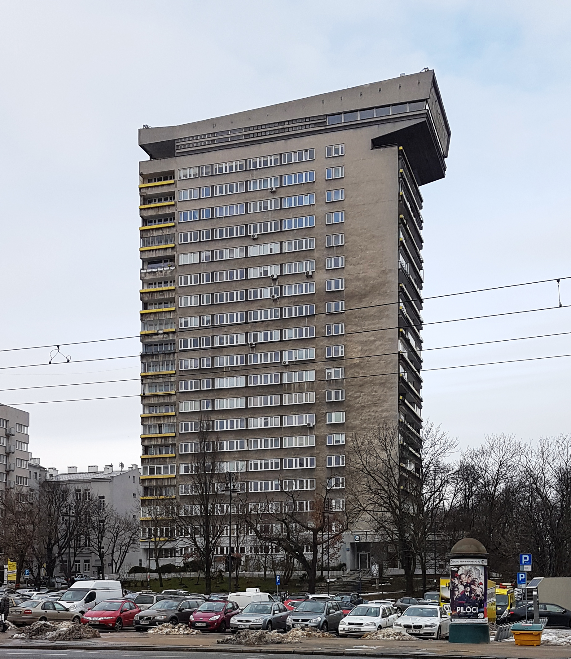 Smolna 8 in Warsaw